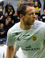 Jon Gudni Fjoluson